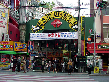 Heiwa-Dori in Naha